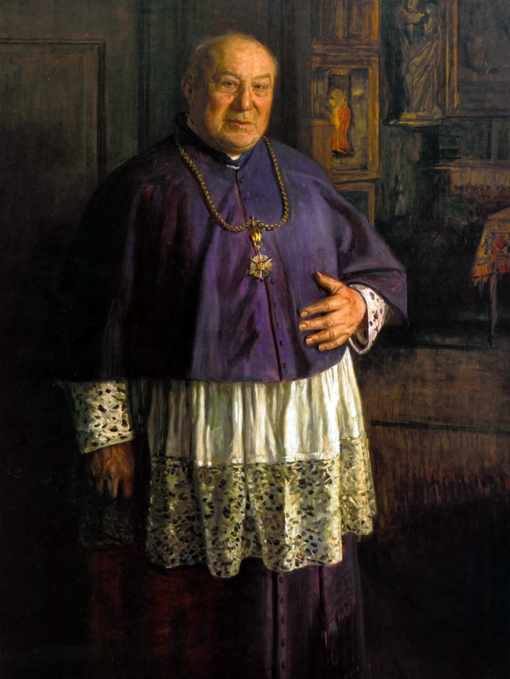 Alexander Schnütgen, German theologist and collector of medieval art, painted by Leopold von Kalkreuth, 1910